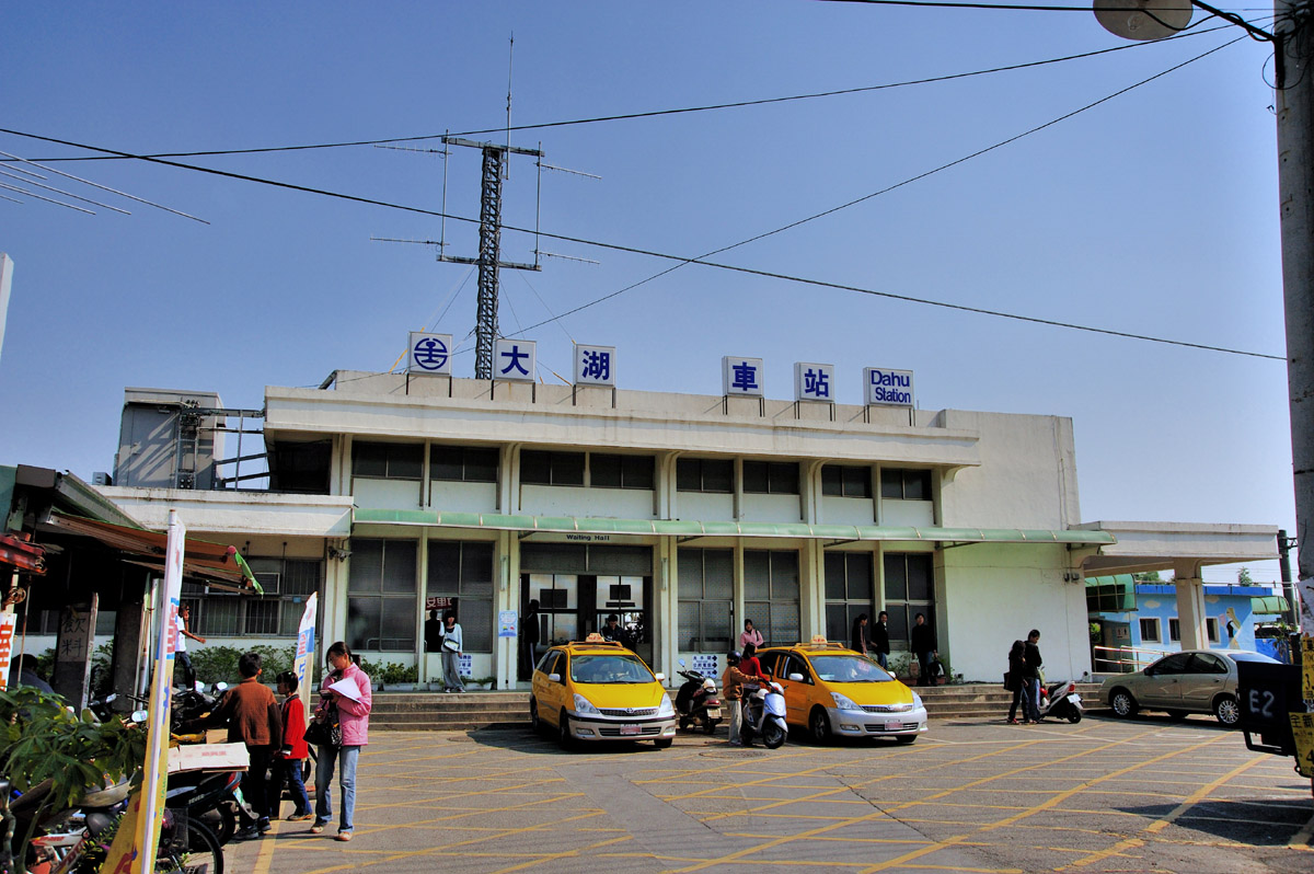 DaHu Station is a local train station of Taiwan's Western main rail line. It locates within the boundary of LuJhu District, KaoHsiung.中文（台灣）: 大湖車站是臺鐵縱貫線上的一座地方車站，位於高雄市路竹區境內，此為本站候車大廳。